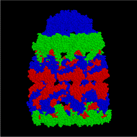 A side-view of the GroES/GroEL complex. Image created using Rasmol.